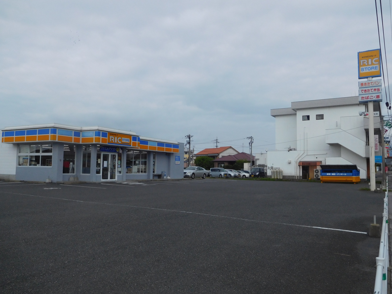 The Convenience Store "RIC STORE", former everyone Tarumizu Store (Kagoshima Prefecture, Japan)